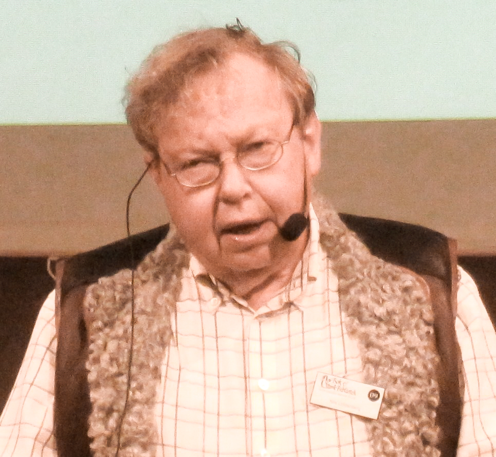 Swedish physician Nils Uddenberg.